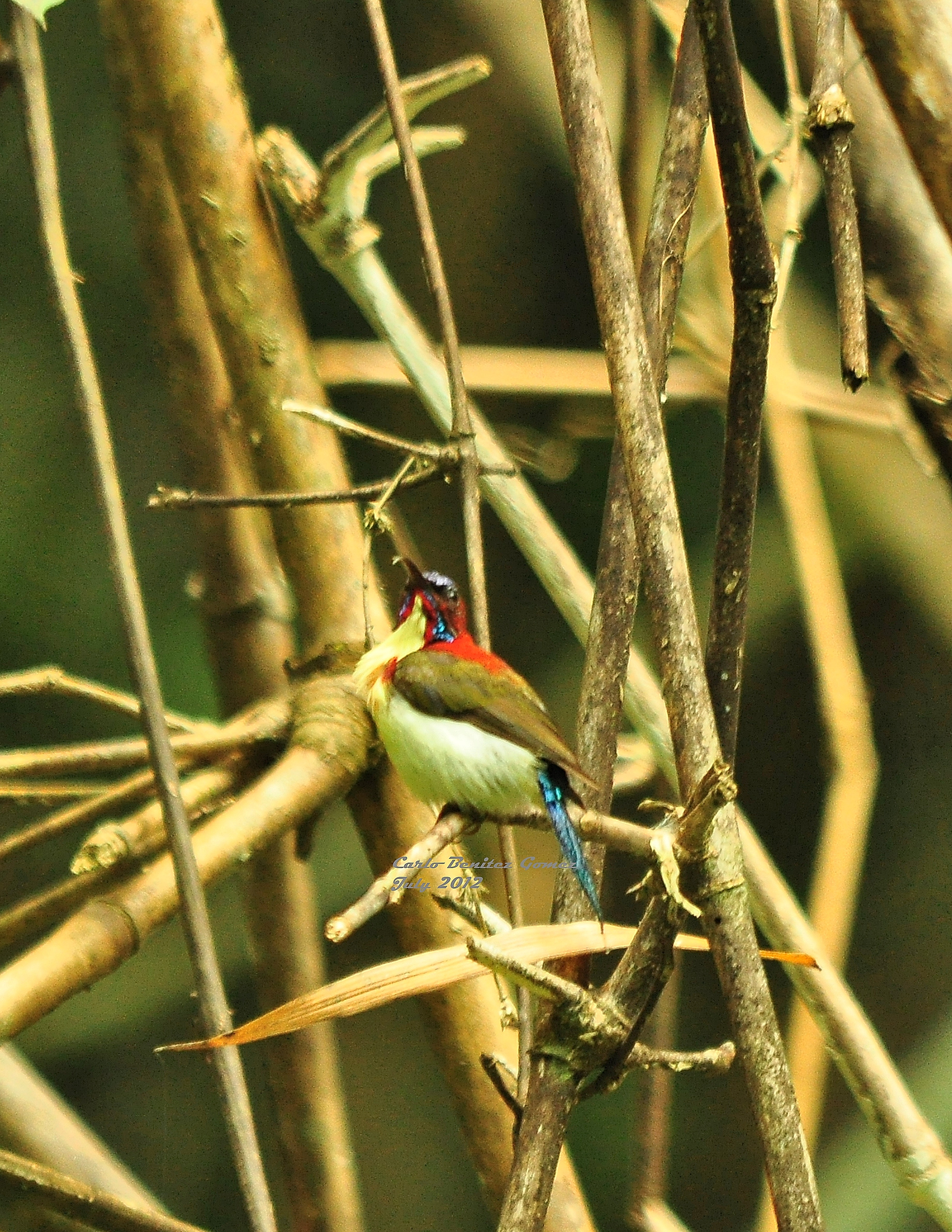 endemic to Palawan. taken in Coron, Palawan, Philippines